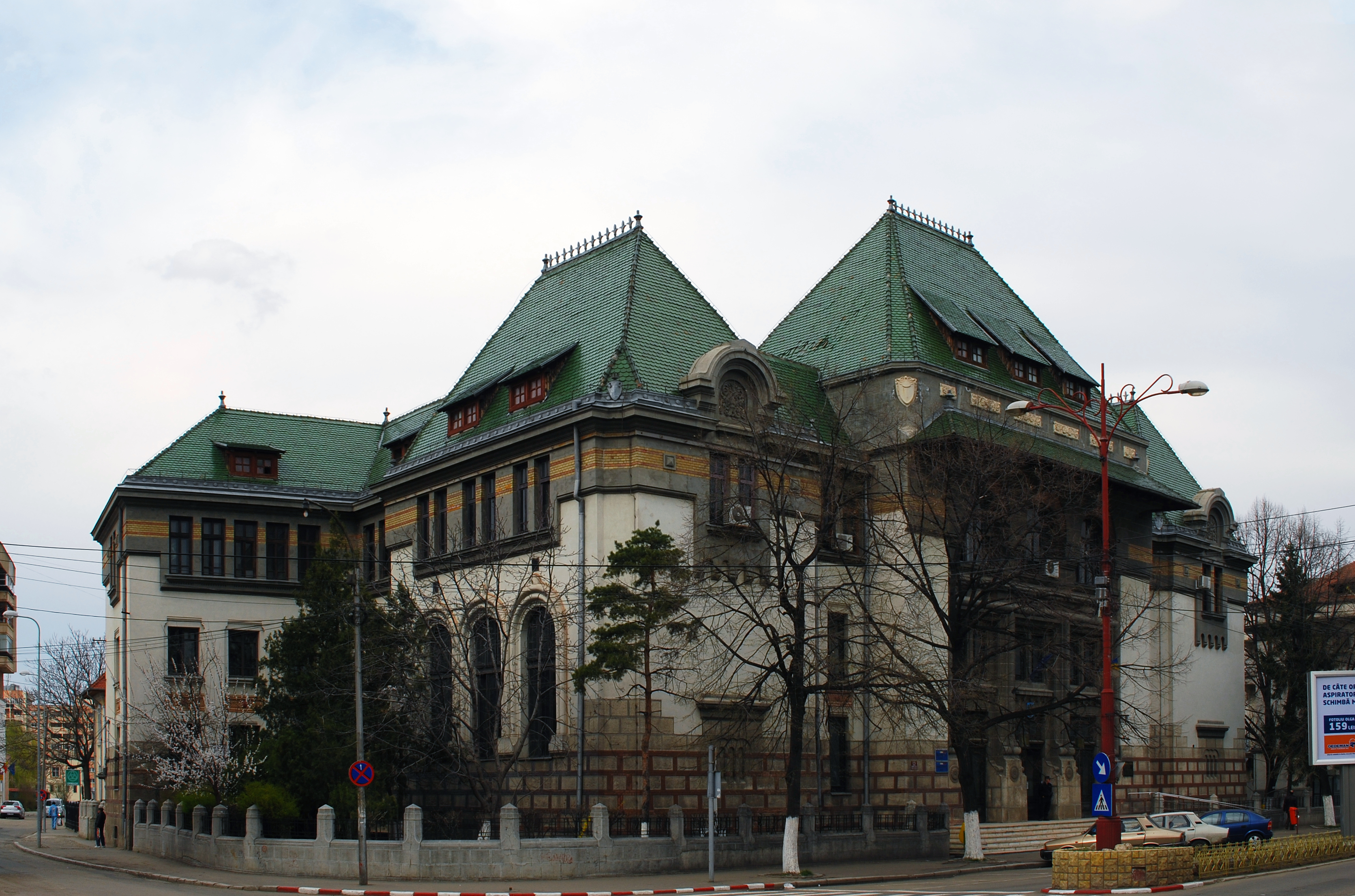 Courthouse building in Buzău, RomaniaRomână: Tribunalul din Buzău, România